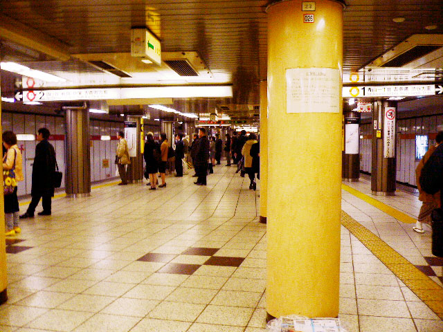 Platform of the station Akasa-Mitsuke (Lines G, M, Z, N, Y)